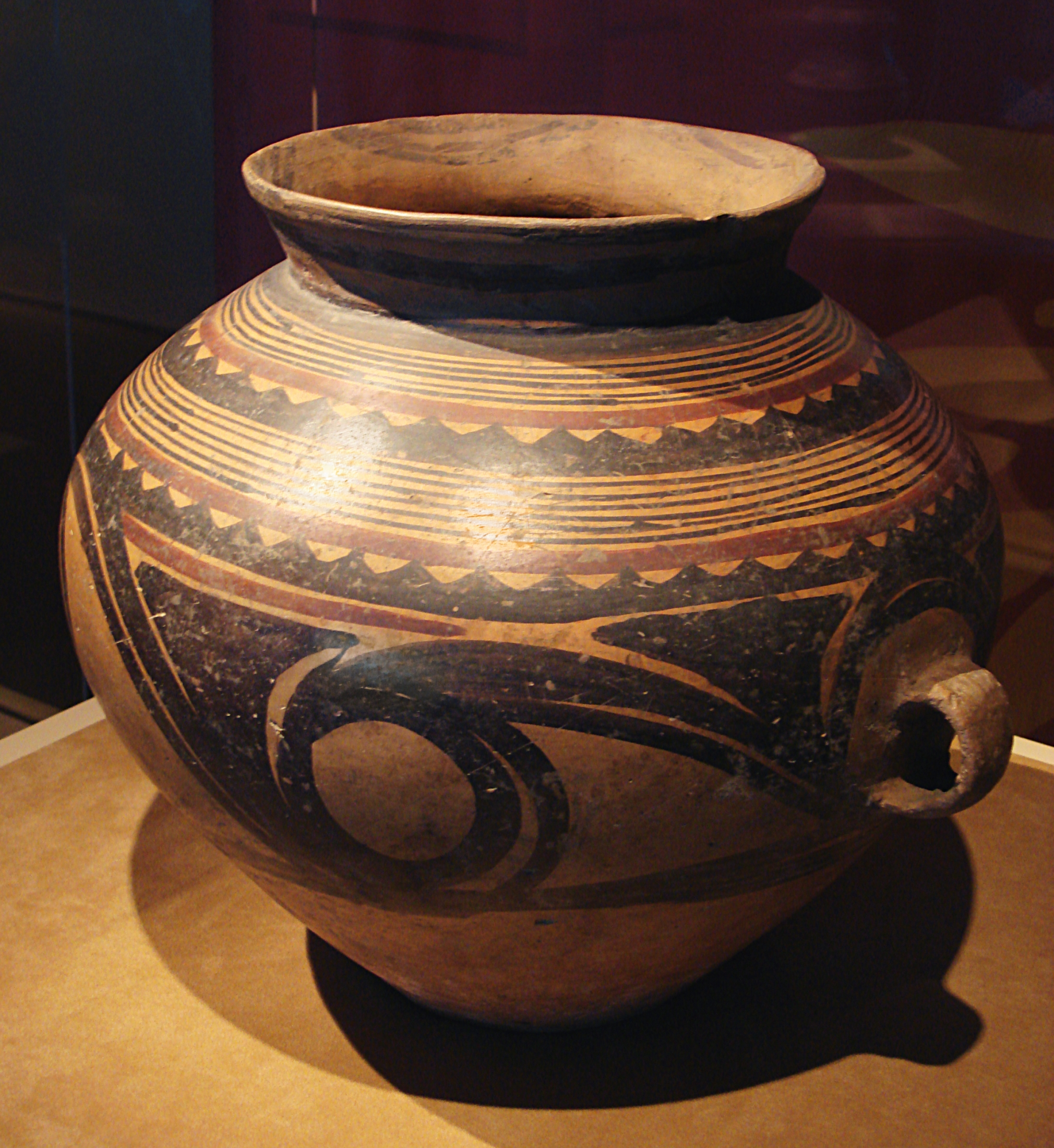 Painted Jar Majiayao Culture Late Neolithic Period (3300 - 2200 B.C.) Created by peoples of the Majiayao Culture, who were located along the upper reaches of the Yellow River, this jar would have stored food or water. The body is painted in typical Majiayao pottery colours of orange, yellow, and black, and features whirlpool designs that suggest the Neolithic Chinese used water patterns as a form of decoration.